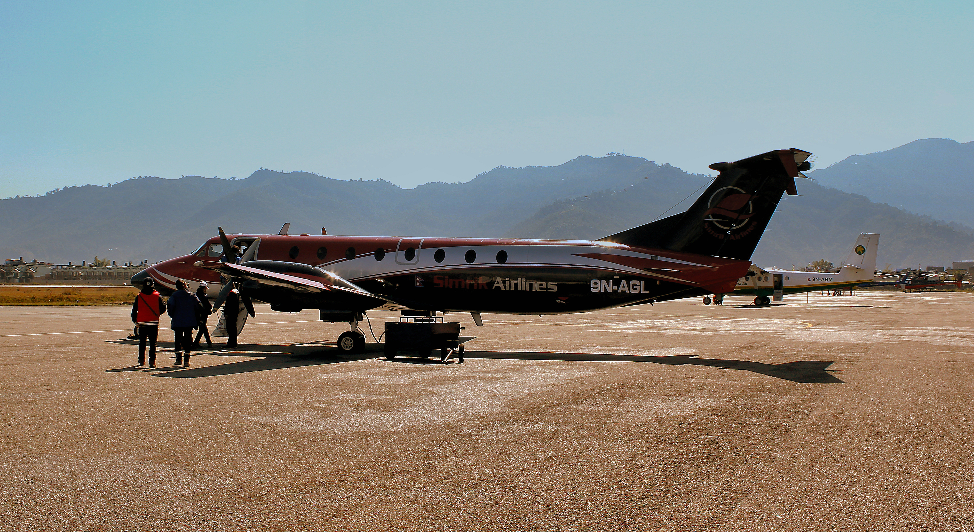 SIMRIK AIRLINES BEECH 1900 9N-AGL AT POKHARA AIRPORT OPERATING FLIGHT SMA152 TO KATHMANDU TRIBHUVAN AIRPORT NEPAL FEB 2013